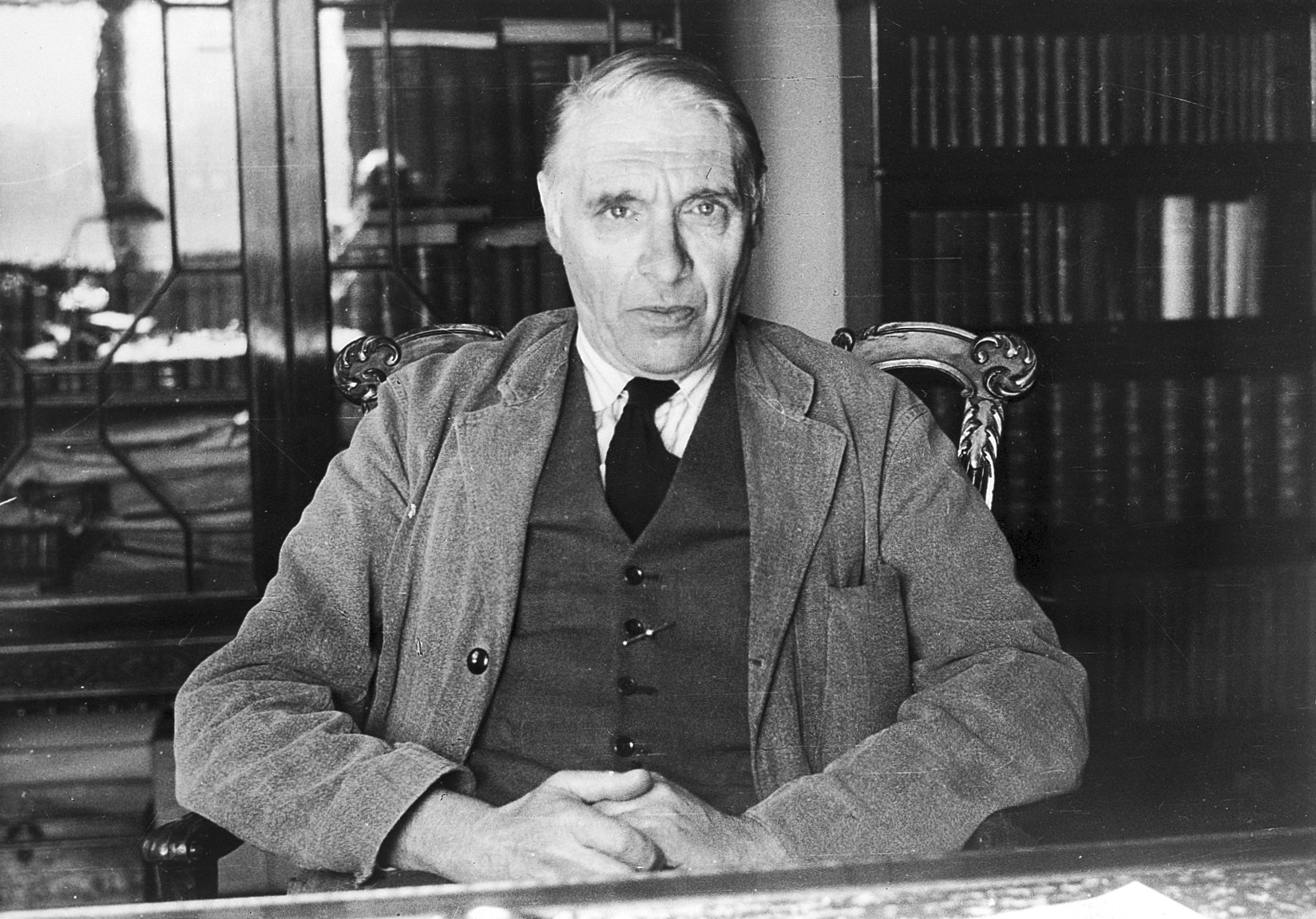 A.D. Lacaille; member of staff of the Wellcome Museum. Wellcome Images Keywords: Wellcome Museum of Medical Science; Wellcome Historical Medical Museum (London)